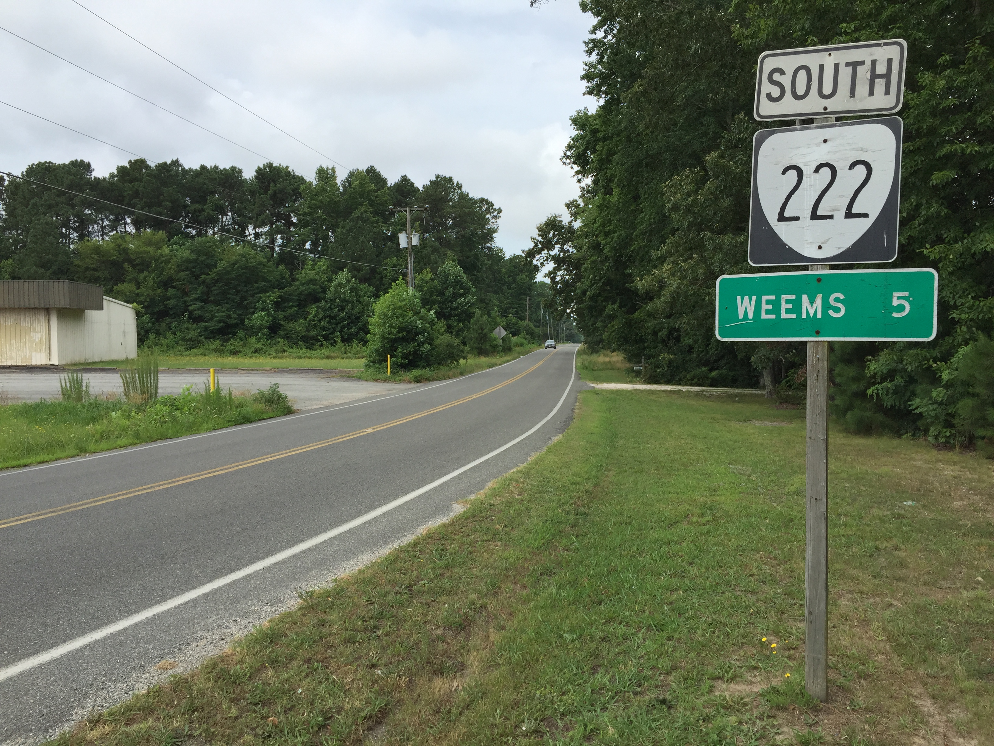 View south along Virginia State Route 222 (Weems Road) at Virginia State Route 200 (Irvington Road) in Christ Church, Lancaster County, Virginia